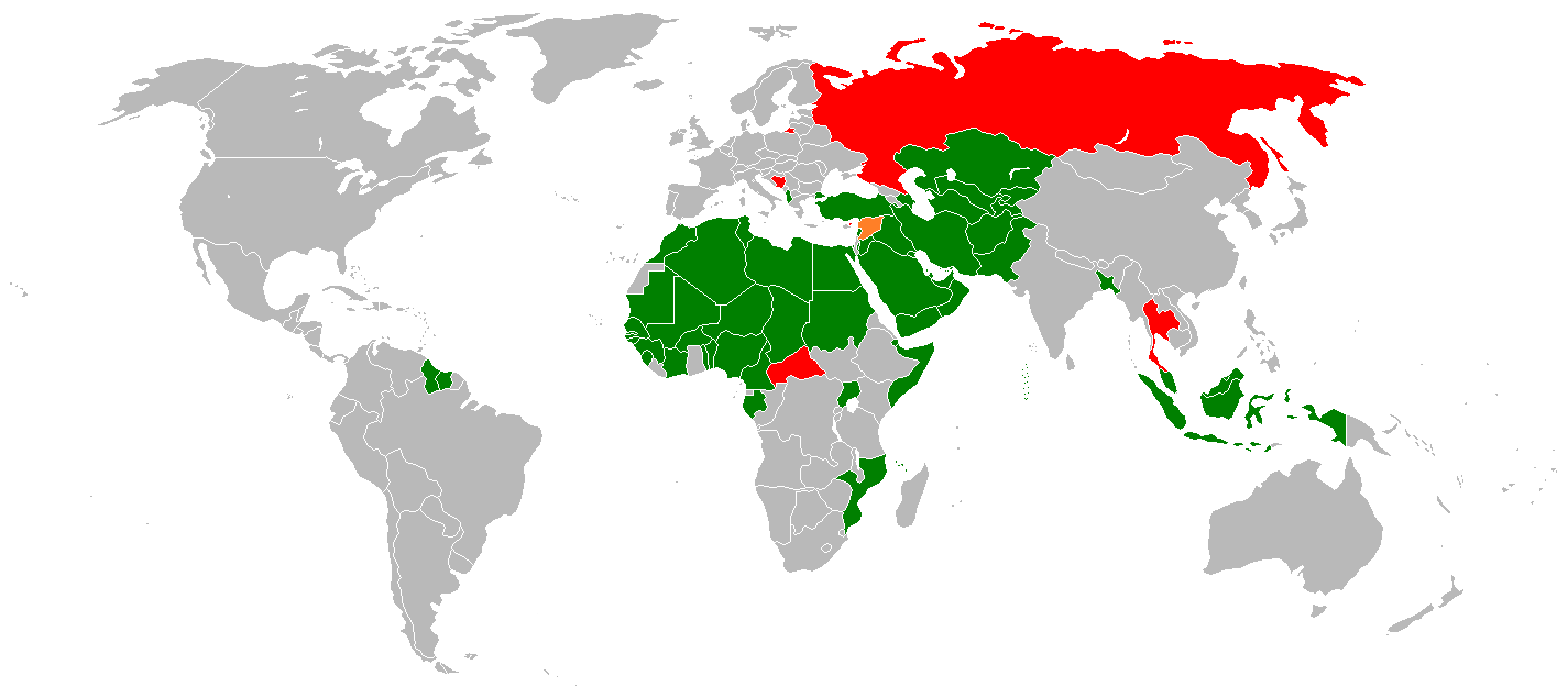 Map of nations in Organization of the Islamic Conference